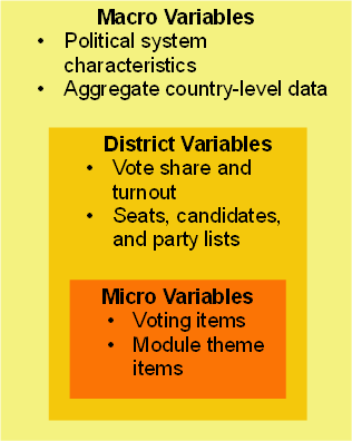 Three levels of data contained in CSES dataset